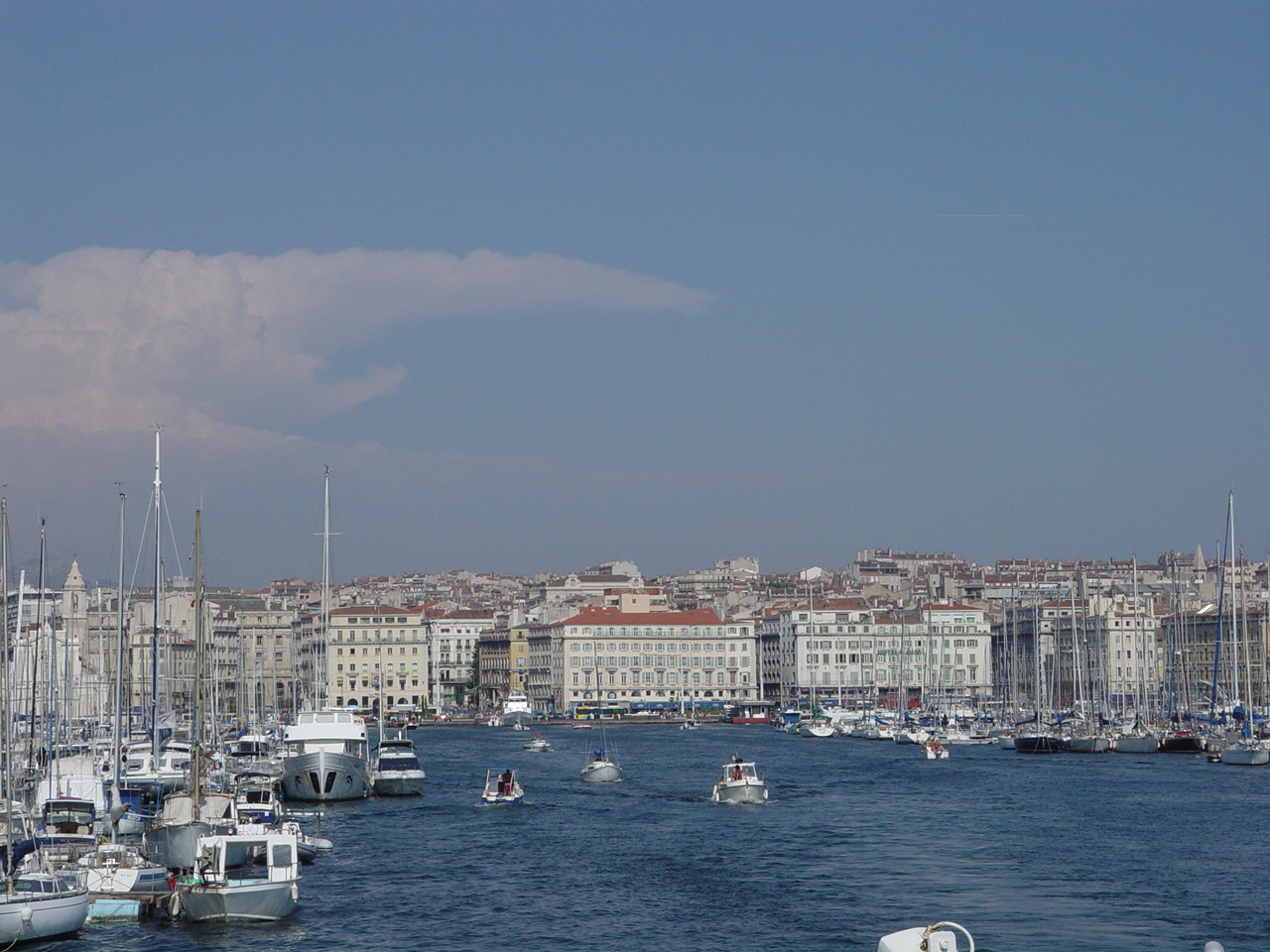 Arrival in vieux port of Marseille.